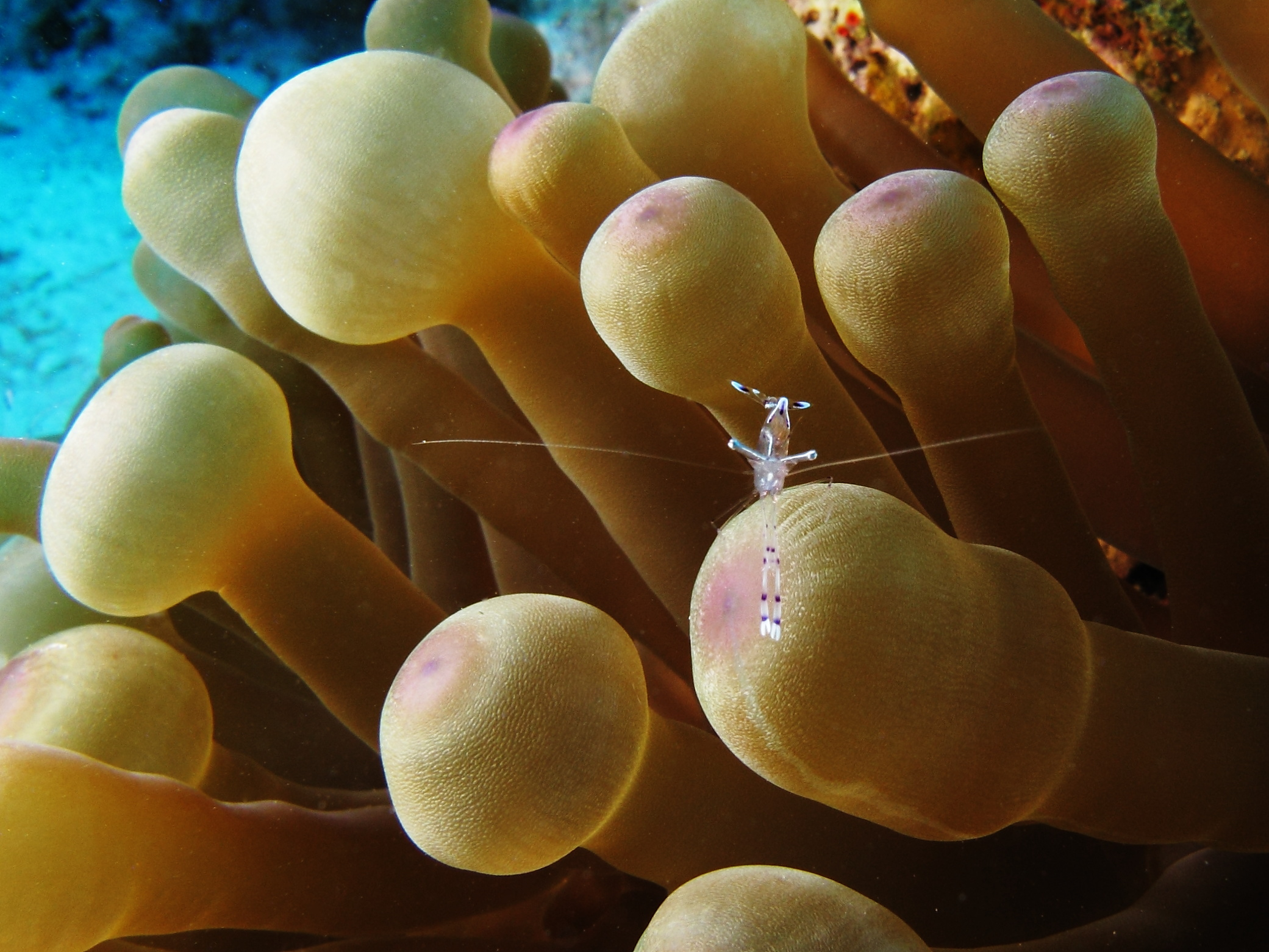 Ancylomenes longicarpus on bubble anemone (Entacmaea quadricolor) at Shaab El Erg Reef (near Hurghada, Egypt)